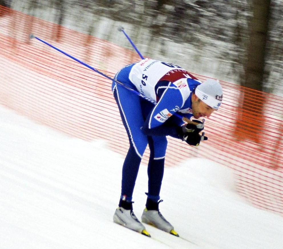 Andrus Veerpalu. FIS World Cup Cross Country - January 7-8 2006 in Otepää, Estonia. Men's 15k Classic XC